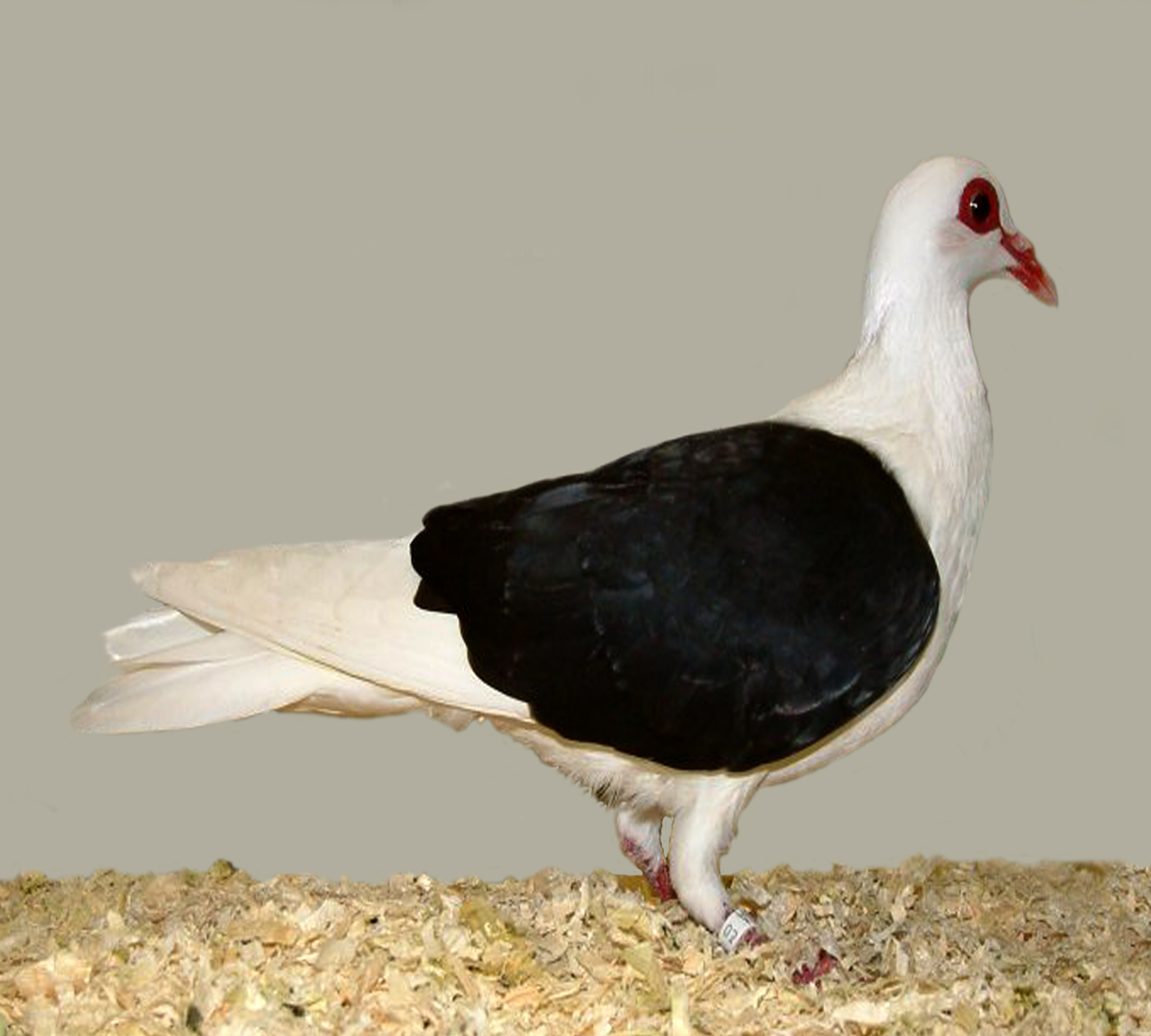 Franconian Velvet Shield (Black)